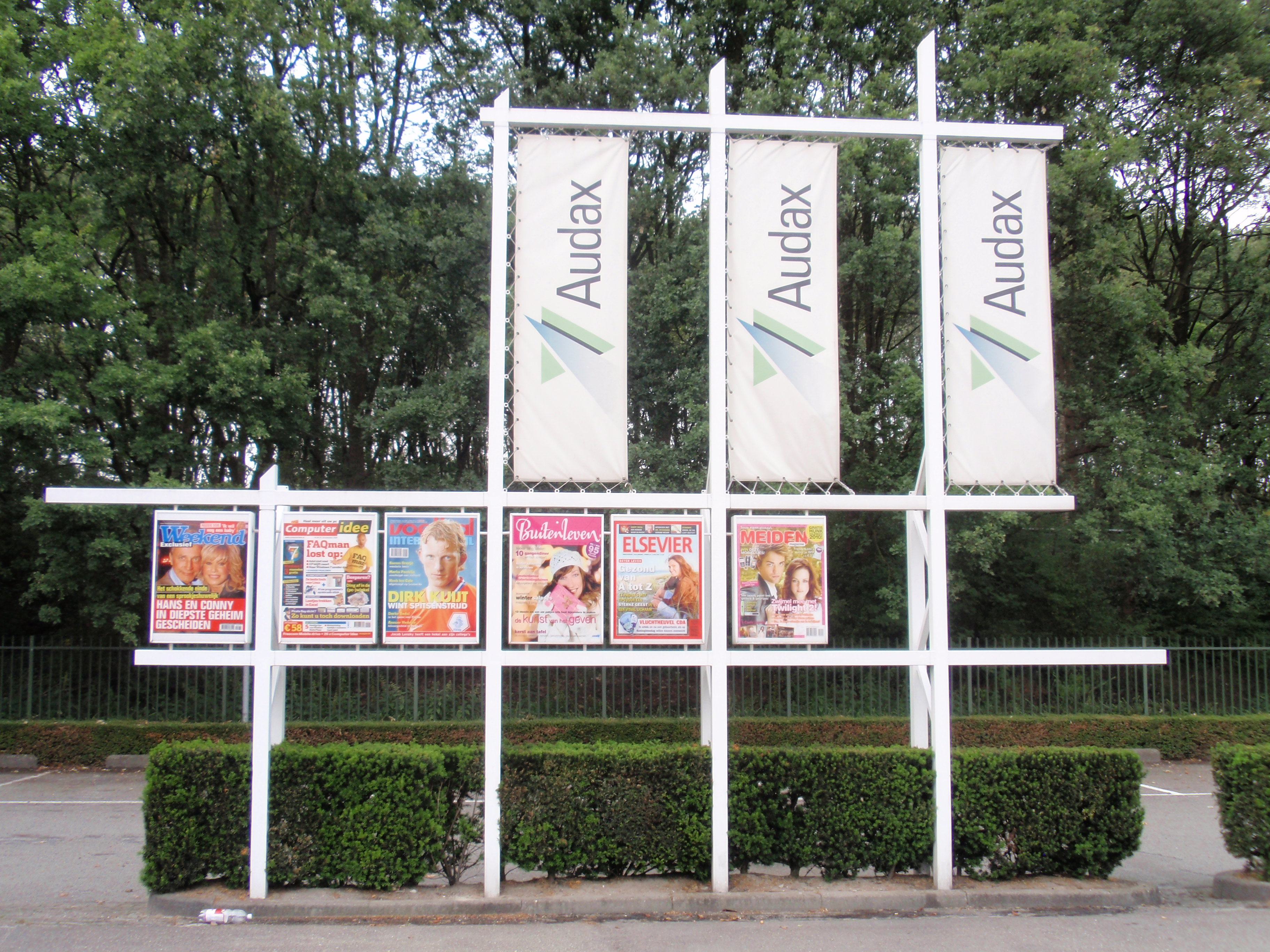 Audax mediaconcern Gilze